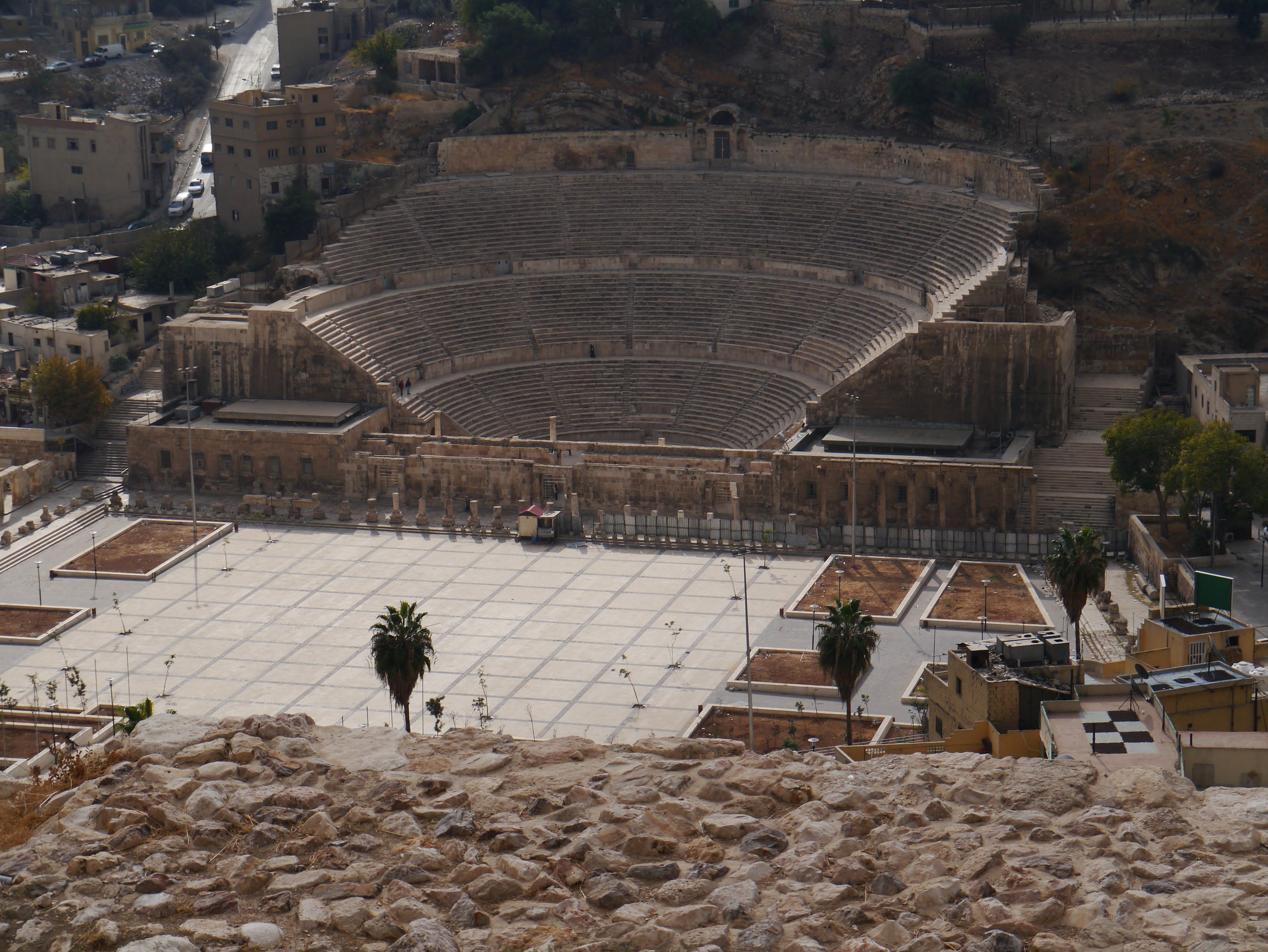 Roman Theatre, Amman, North western Jordan